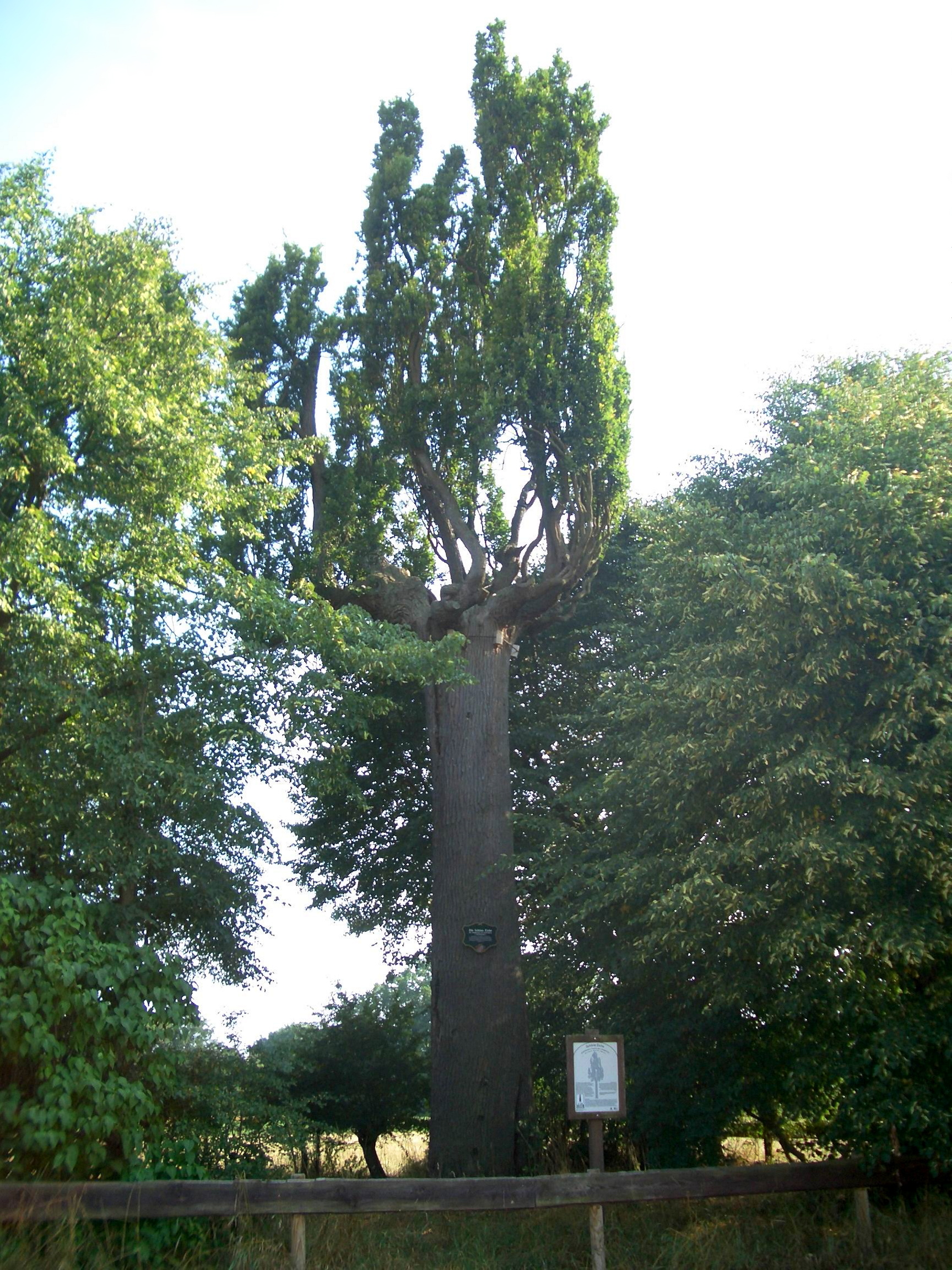 Quercus robur 'Fastigiata' in Harreshausen, Germany